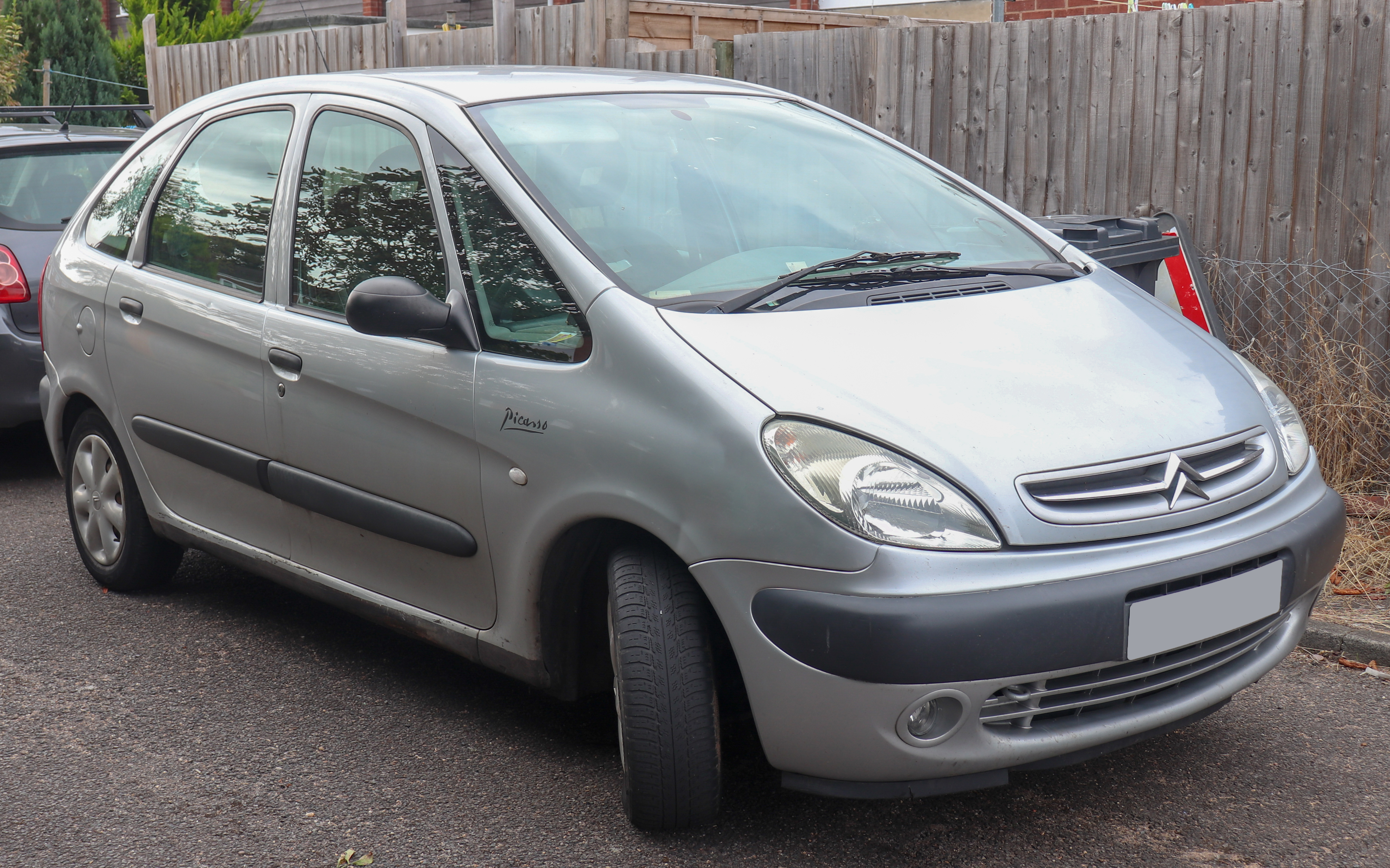 2002 Citroen Xsara Picasso SX HDi 2.0 Front Taken in Warwick